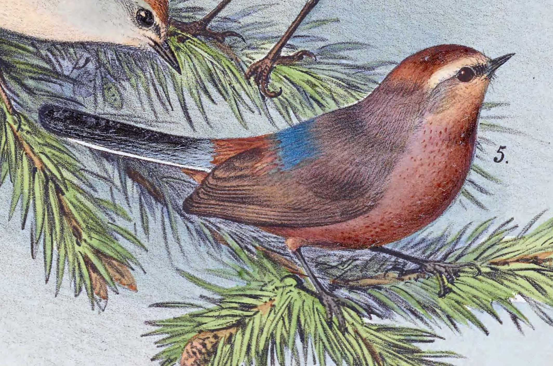 « Leptopoecile obscura » = Leptopoecile sophiae obscurus (Subspecies of White-browed tit-warbler) - young